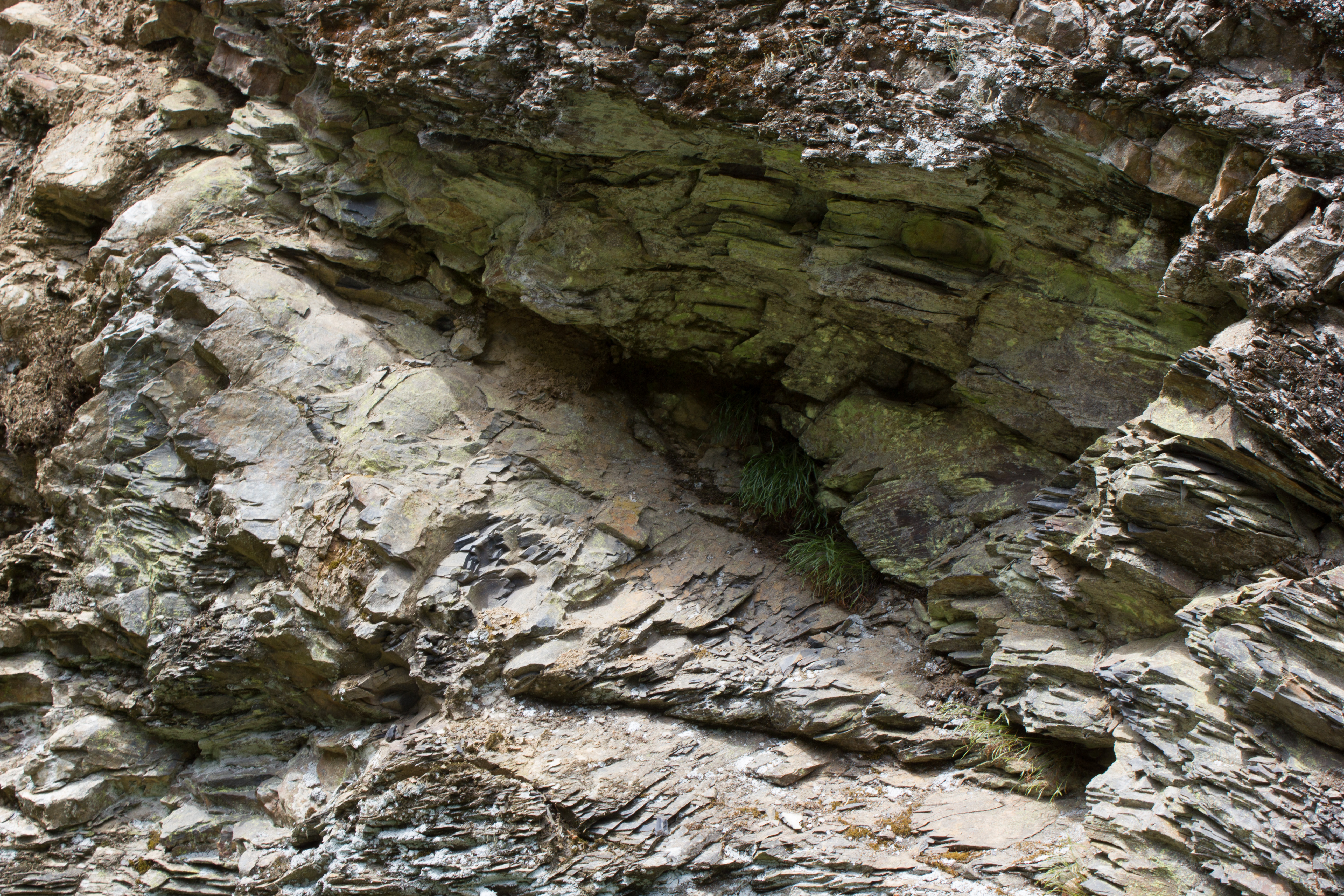 Geotop 475A039 Schwarzenbach am Wald